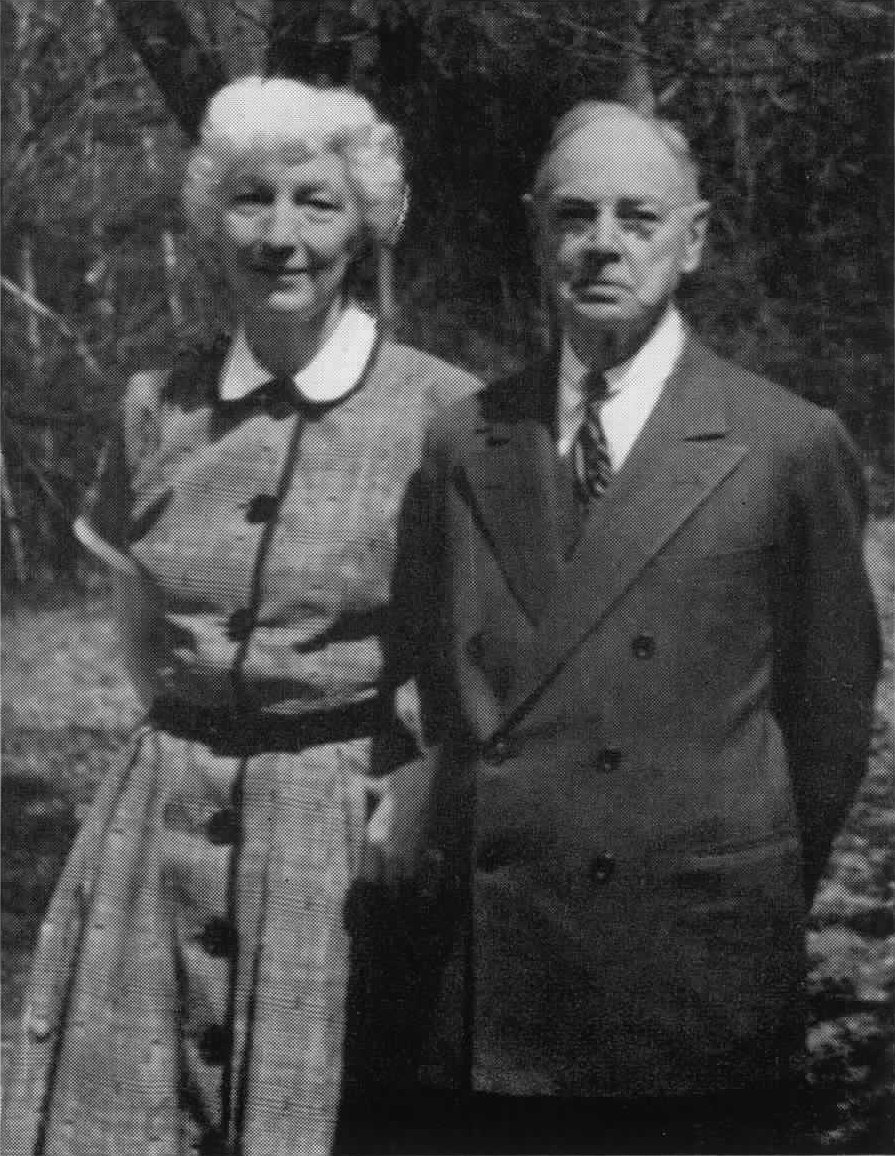 William Robinson Brown and his wife, Hildreth Burton Smith, in 1954, one year before he died.